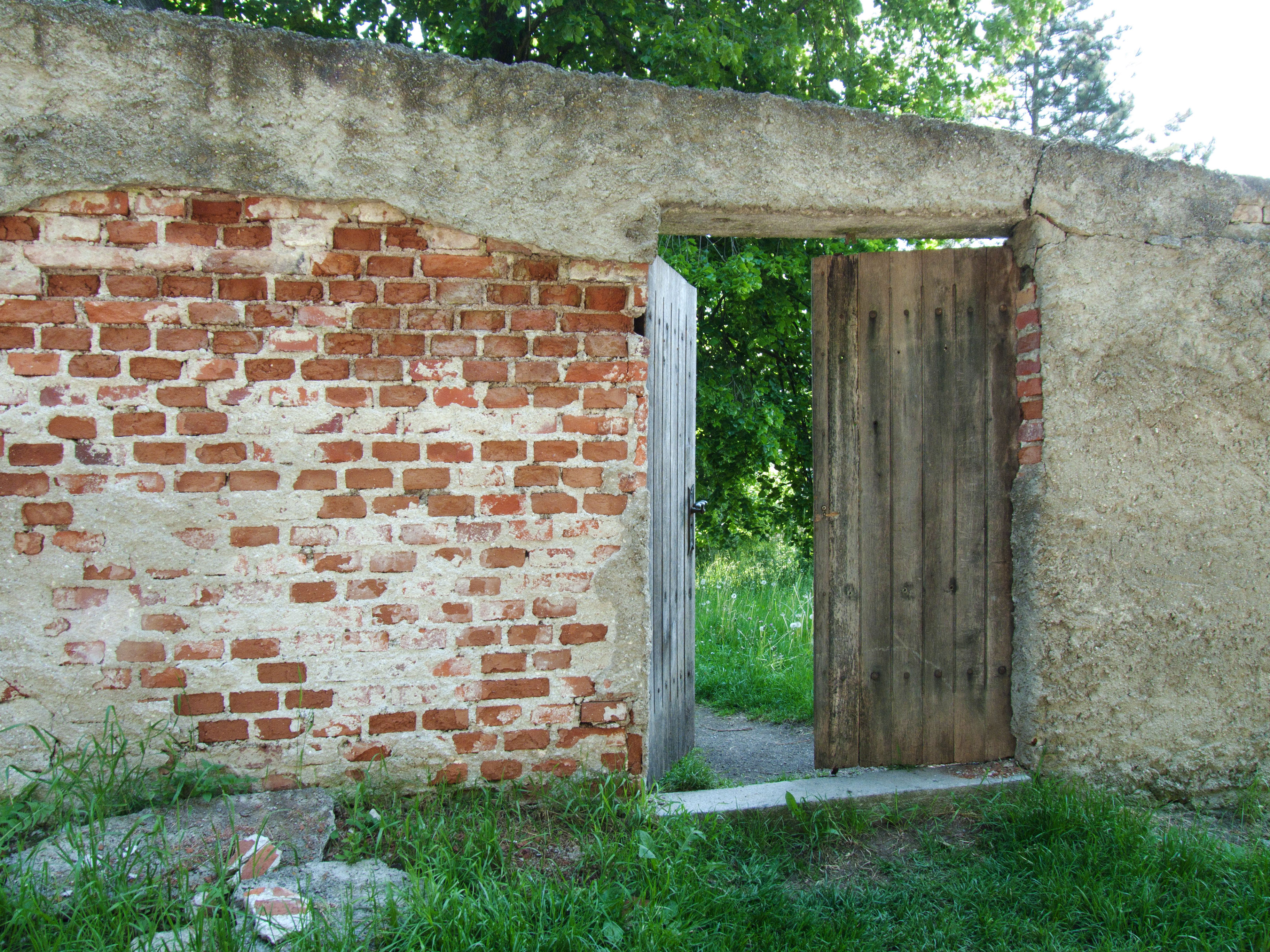 Upper gate to the Old Jewish cemetery in the town of Tábor, South Bohemian Region, Czech Republic.